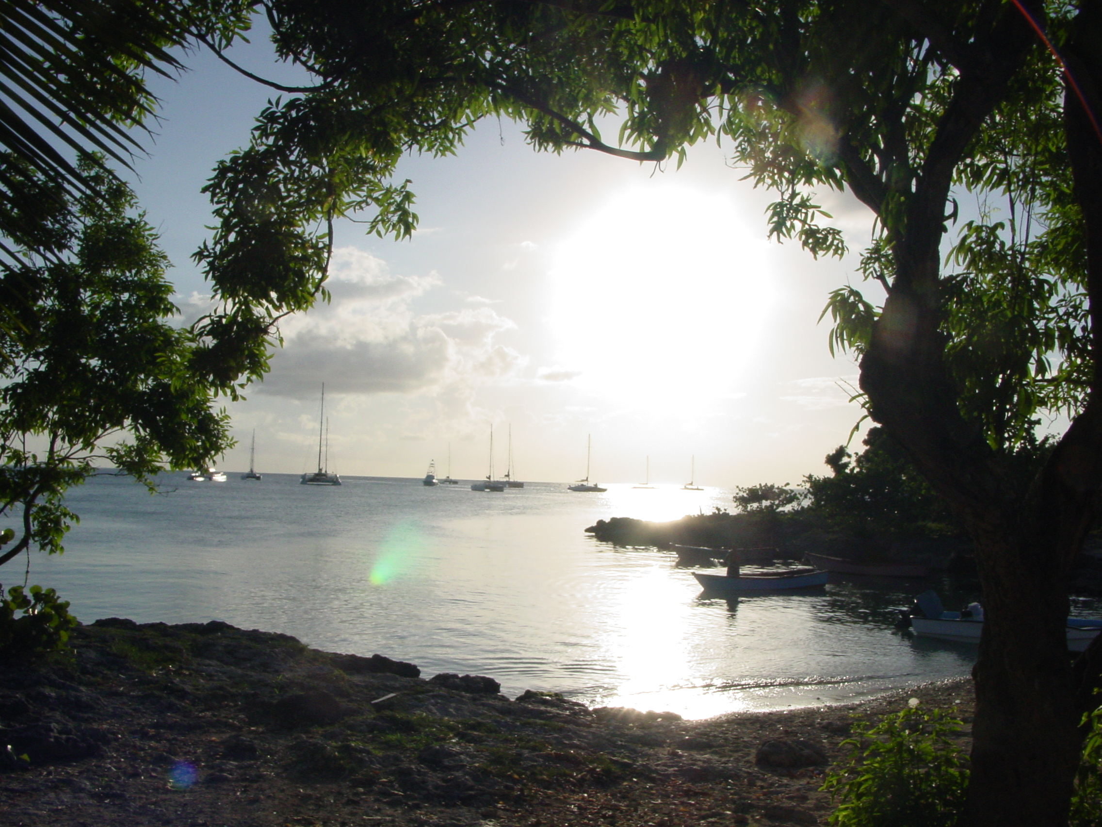 tramonto a Bahaibe